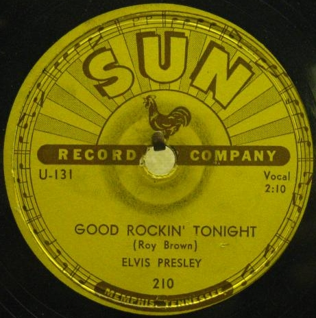 Sun Records label, "Good Rockin' Tonight" by Elvis Presley.